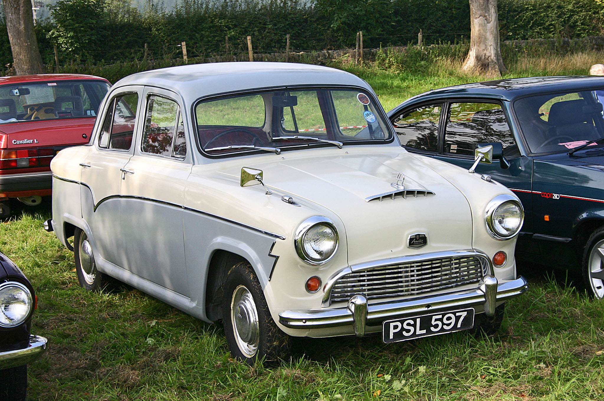 Austin A55 Cambridge, optionally available in two tone colours. Redsimon 21:18, 3 July 2007 (UTC)